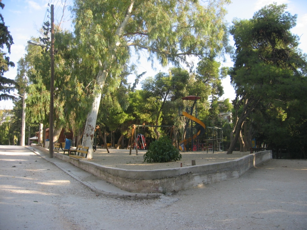 Alsos (Grove) in Nea Smyrni, Attica, Greece.